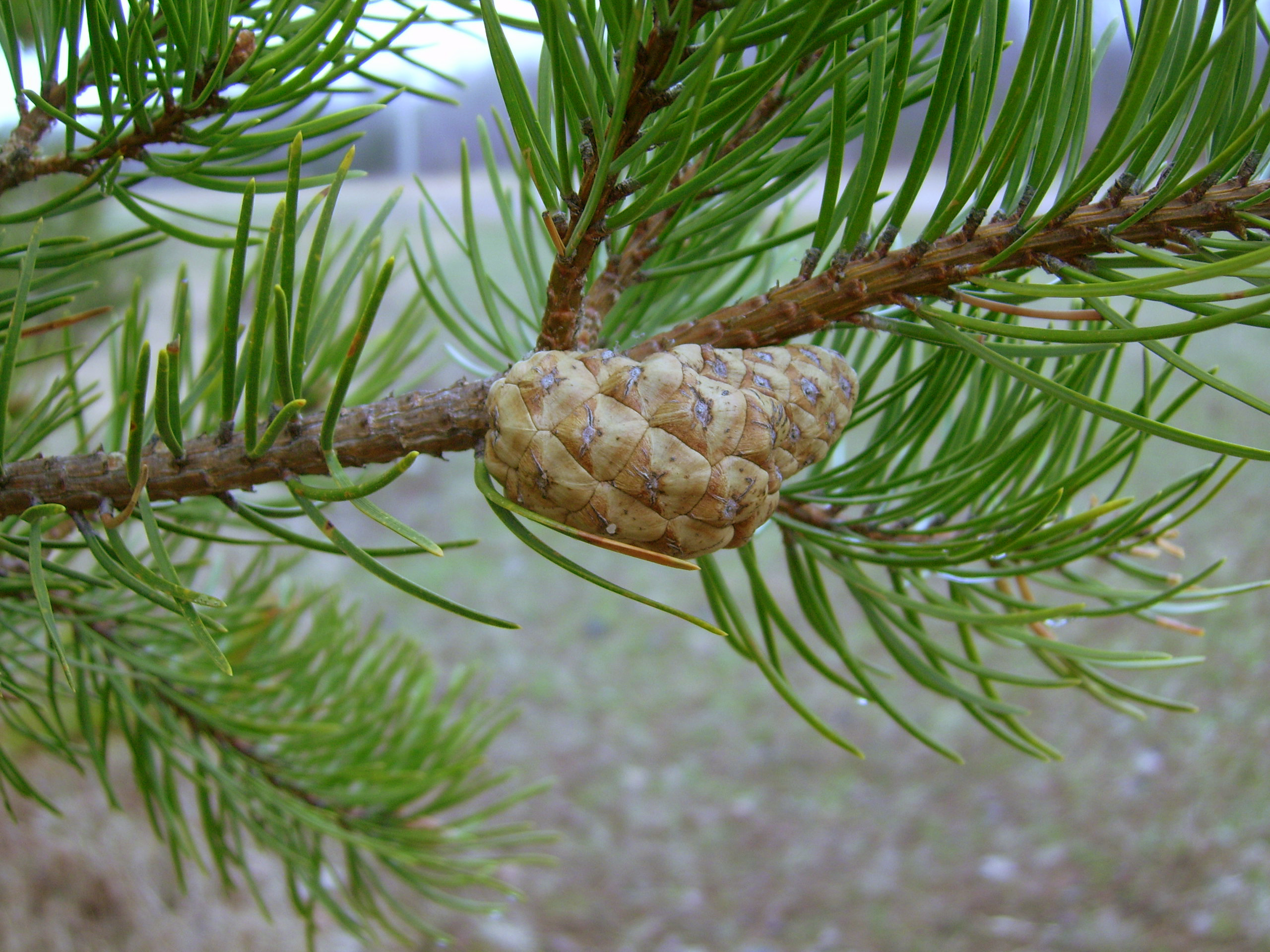 Jack pine cone (Pinus banksiana), St. Joseph Twp., Ontario